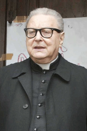 Portrait of bishop Nogaro